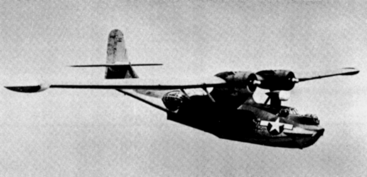 A U.S. Navy Consolidated PBY-6A Catalina in flight.